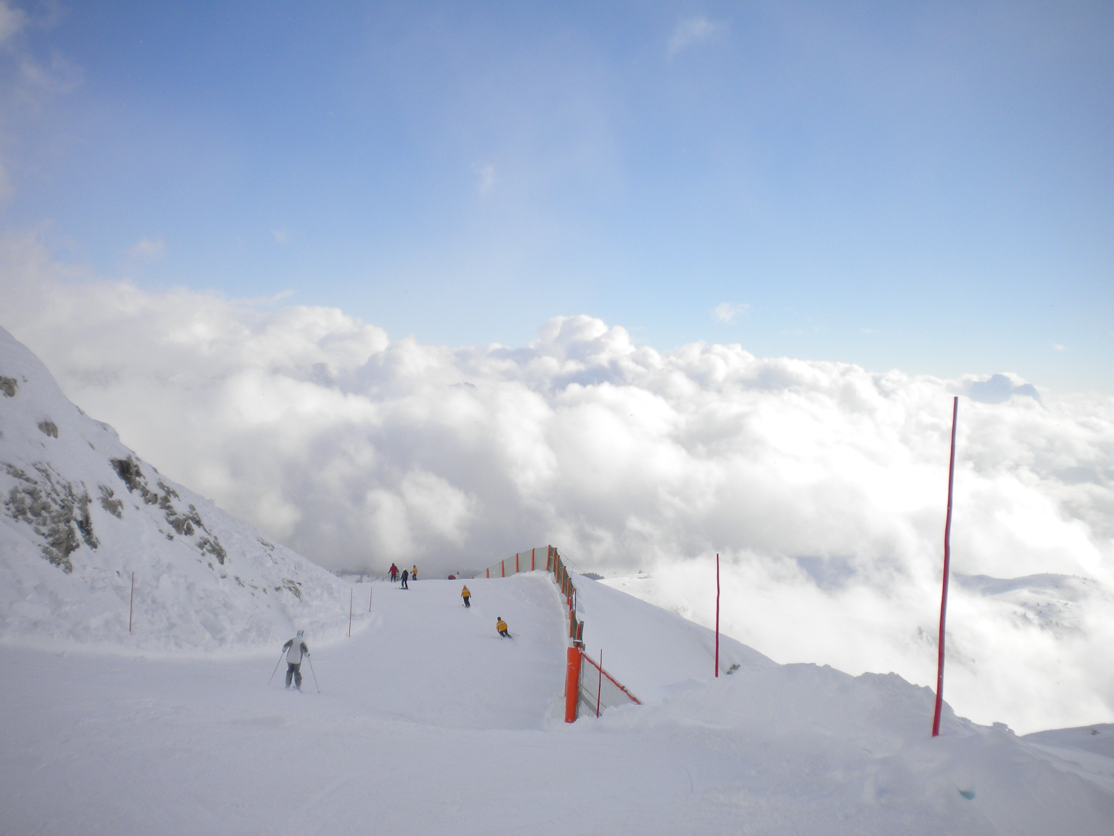 Alta Badia, Dolomites, Italy. "Valon" slope above an ocean of clouds.